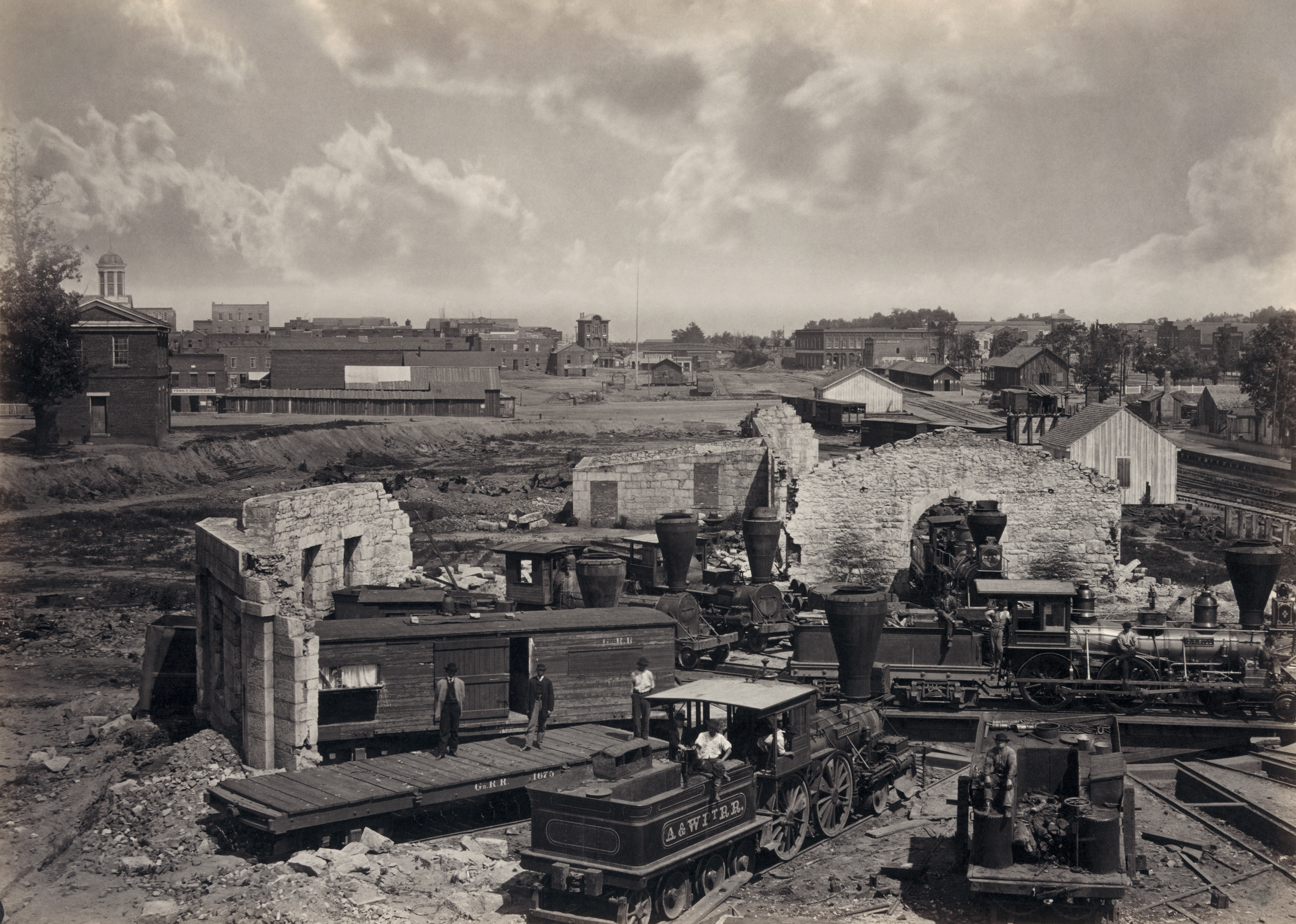 Atlanta, Georgia shortly after the end of the American Civil War showing the city's railroad roundhouse in ruins. Albumen print.